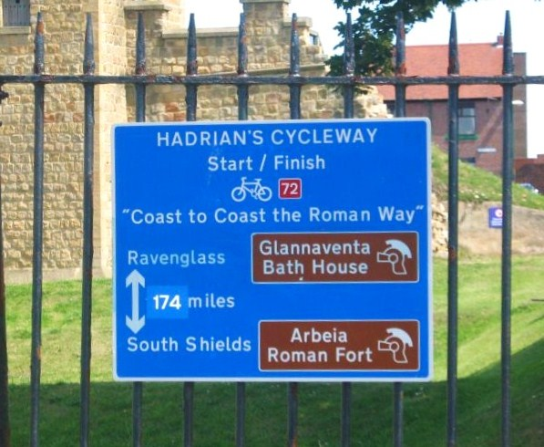 Signpost at start of Hadrian's Cycleway, Arbeia Roman Fort, South Shields, Tyne and Wear